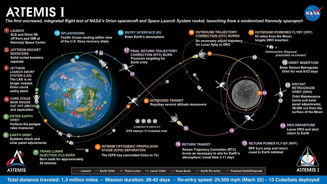 Overview of the mission plan for Artemis 1